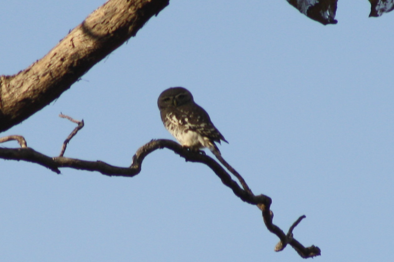 Forest Owlet (Heteroglaux blewitti, Athene blewitti) in Melghat Tiger Reserve Maharashtra